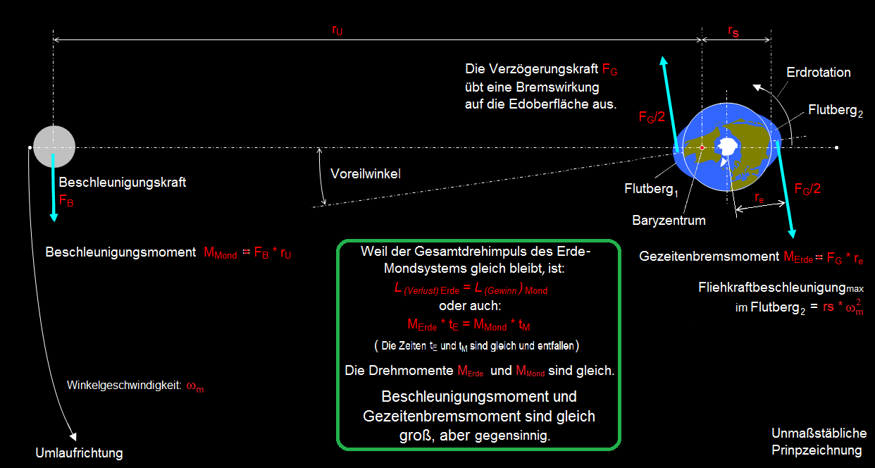 Tidal forces with effect on the Earth's rotation and the lunar cycle